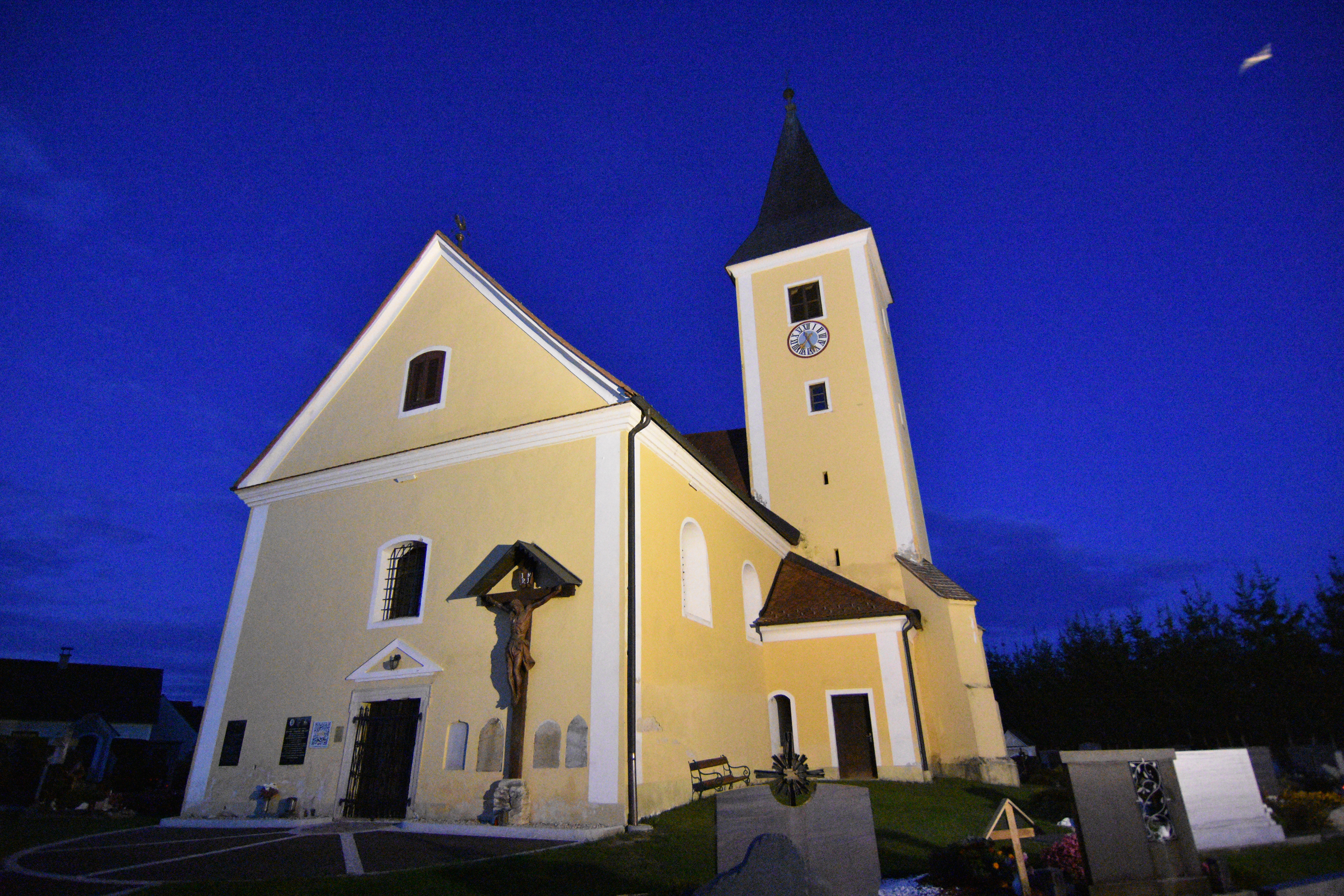 Uebersbach, Church with Airplane